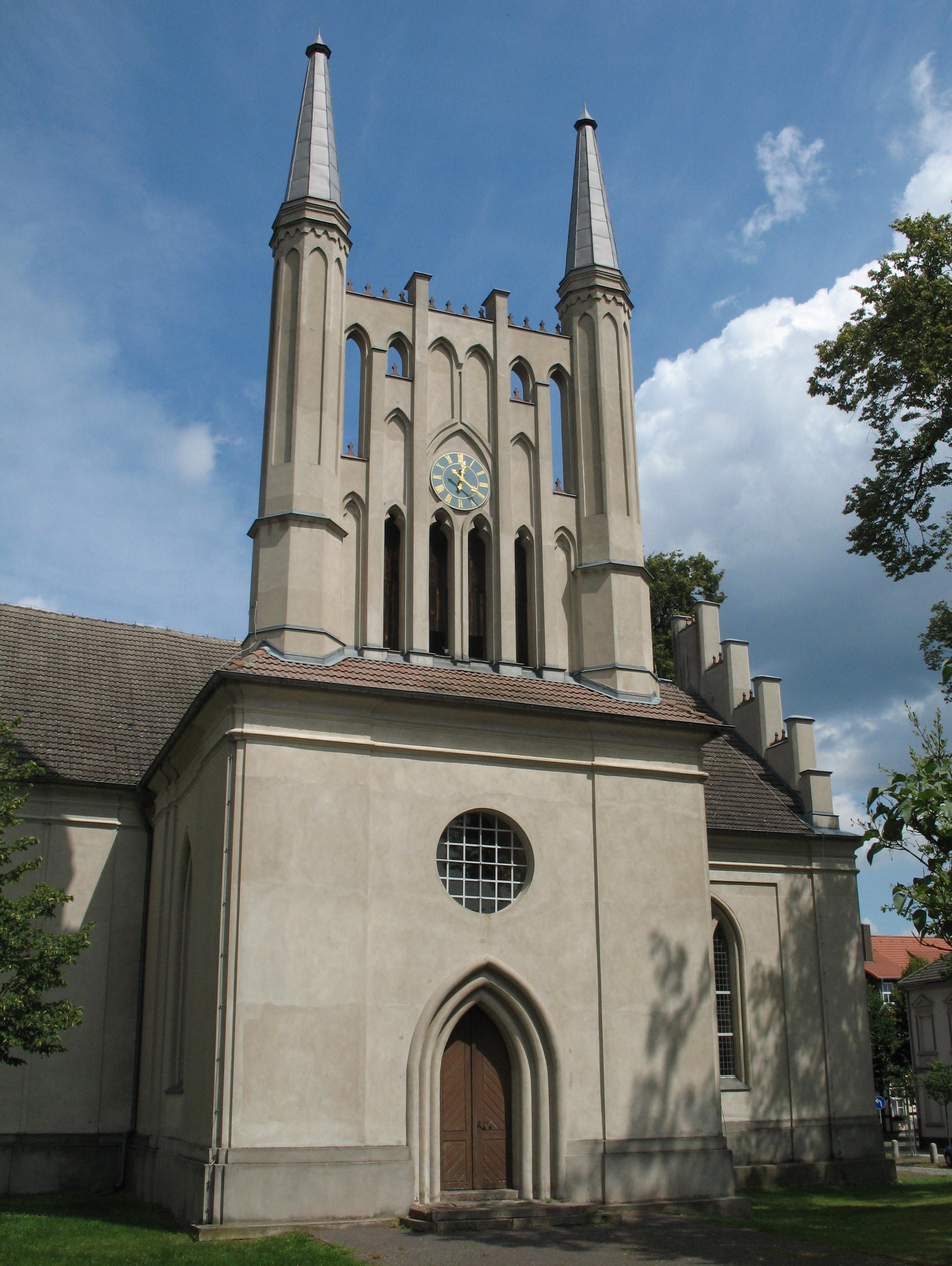 Church in Joachimsthal in Brandenburg, Germany